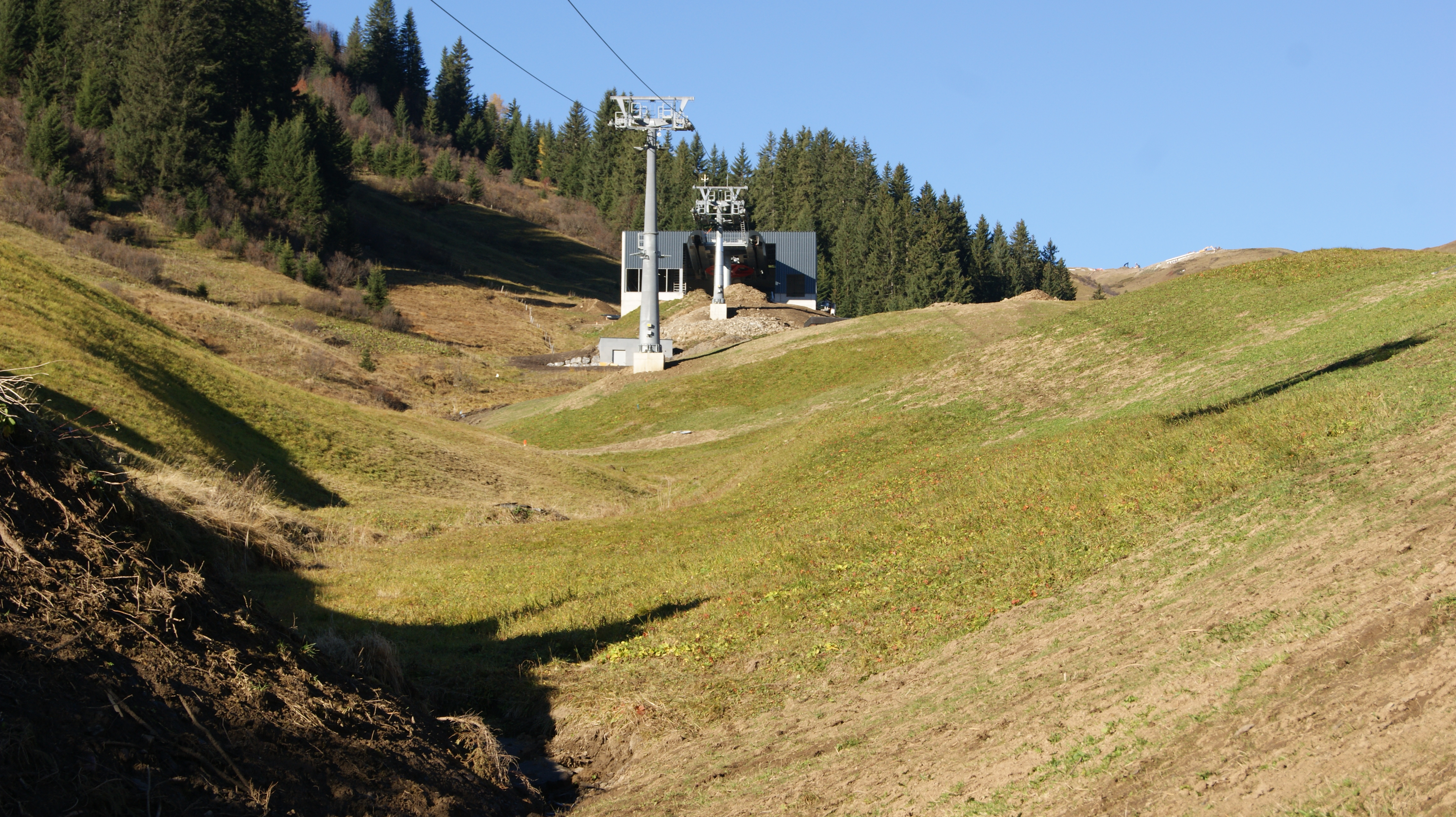 Monocable gondola detachable Warth in Warth Vorarlberg, Austria. Top station.